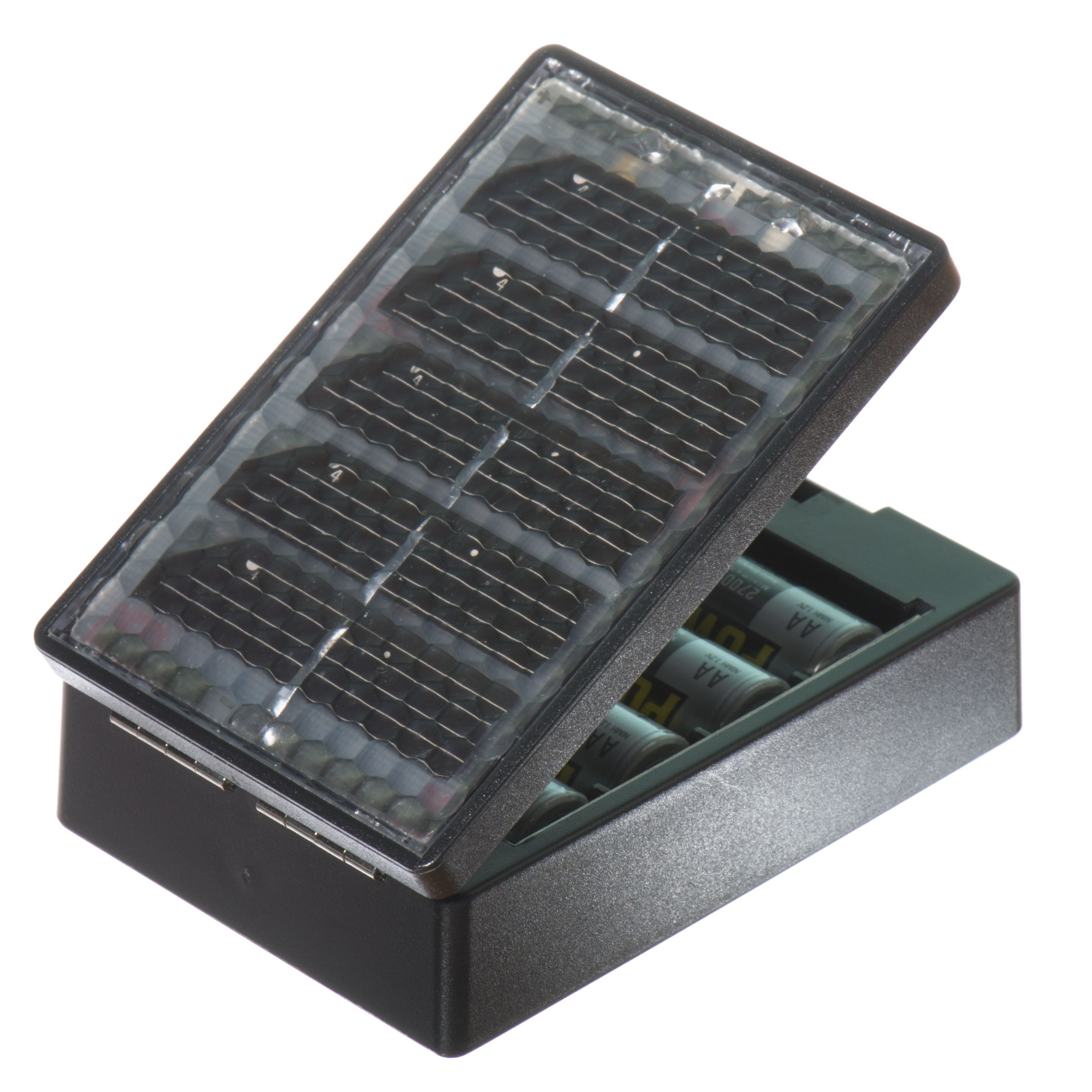 Solar AA battery charger. Manufacturer recommends 2 to 3 hours for one battery, and up to 10 to 14 hours for 4 batteries. "Times will vary depending upon the strength of sunlight or the depth of discharge of the batteries." Made in China.